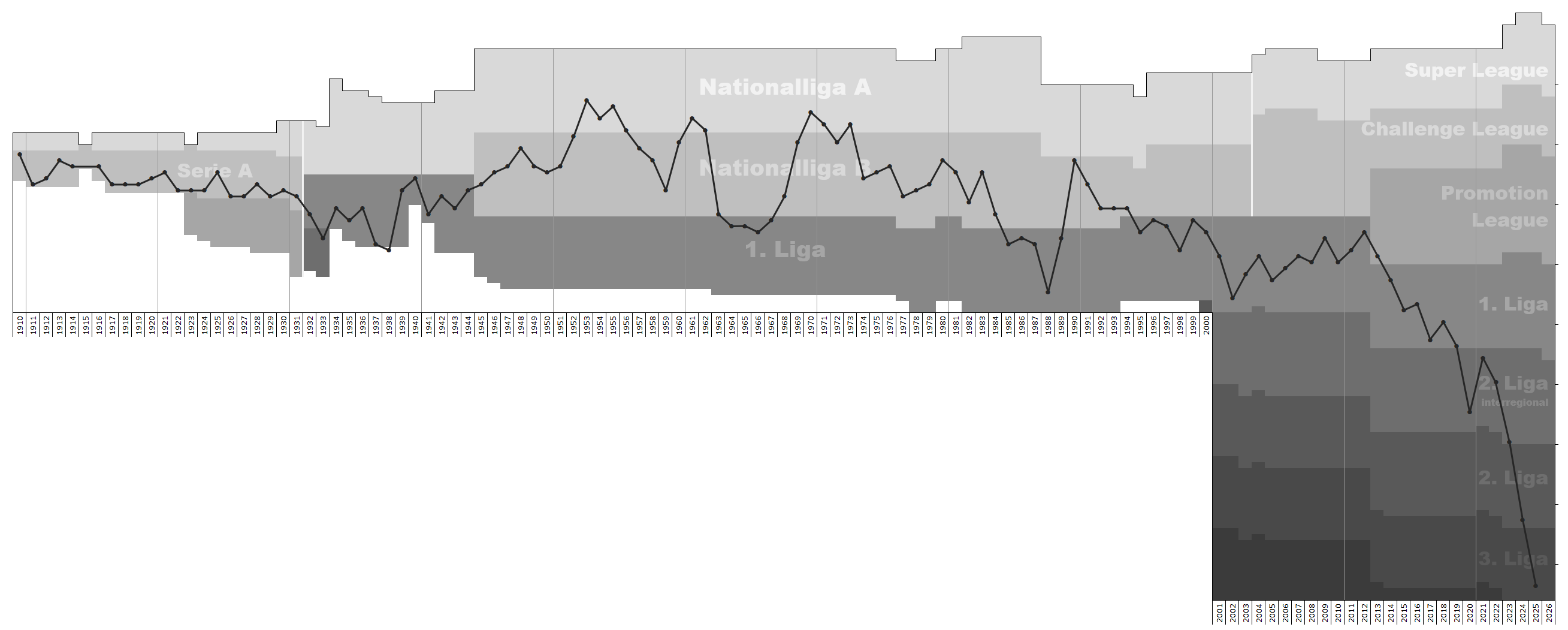 Chart of end-season table positions for FC Fribourg in the Swiss football league system. Data source: RSSSF